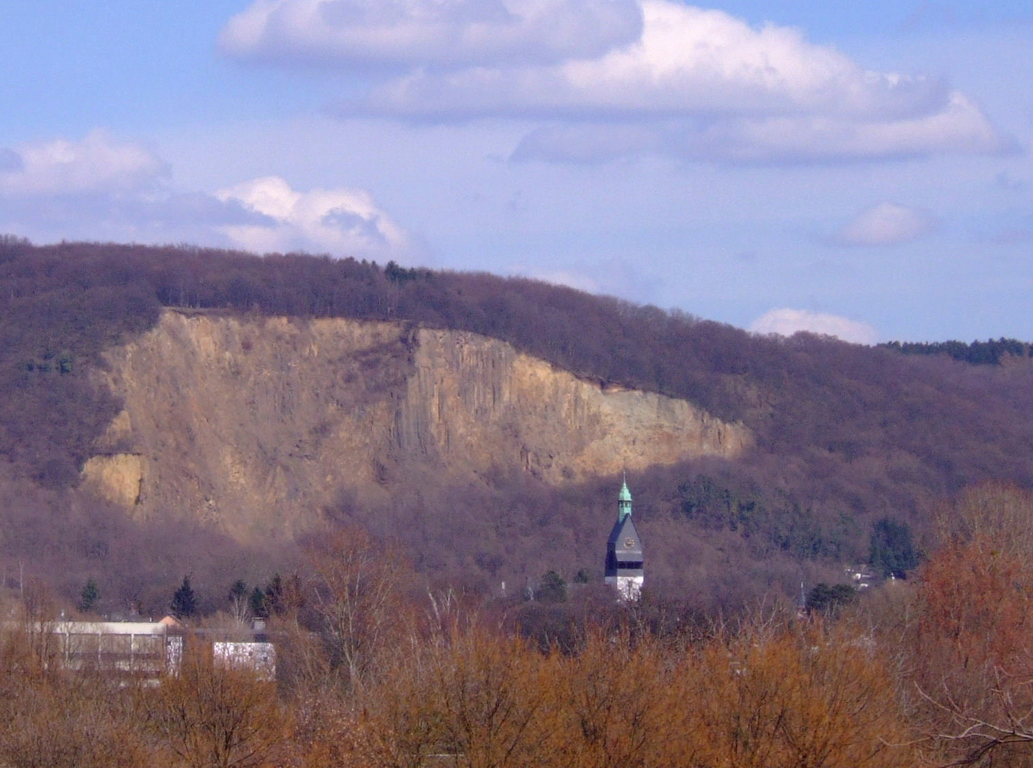 View of Bonn-Oberkassel from the left banks of the Rhine – in the background the Kuckstein, site of the Doppelgrab von Oberkassel, can be seen.